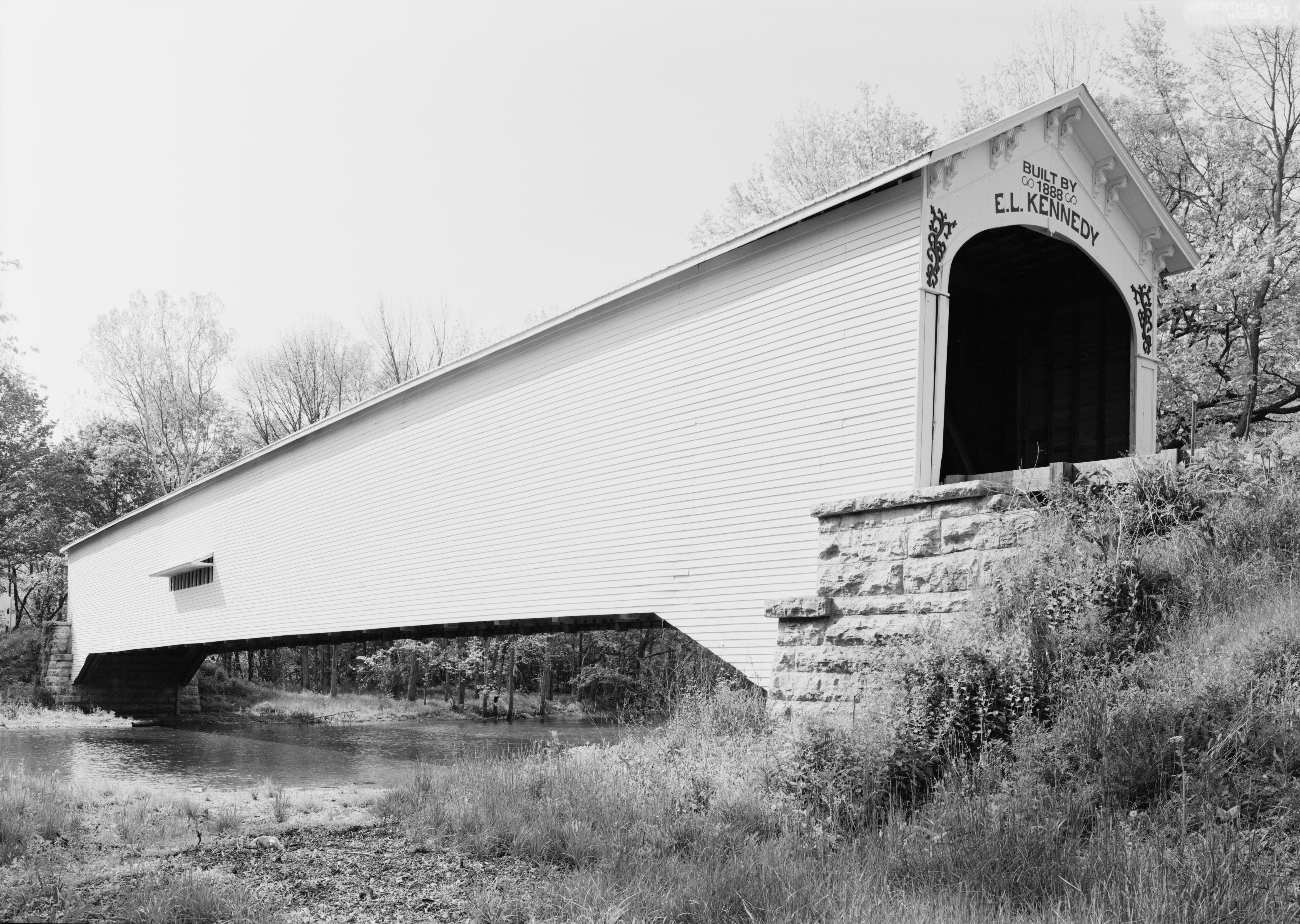 Southern (downstream) side of the Forsythe Covered Bridge, which carries W650S over the Flatrock River near Rushville in Rush County, Indiana, United States. Built in 1888, the Burr arch truss covered bridge is listed on the National Register of Historic Places.